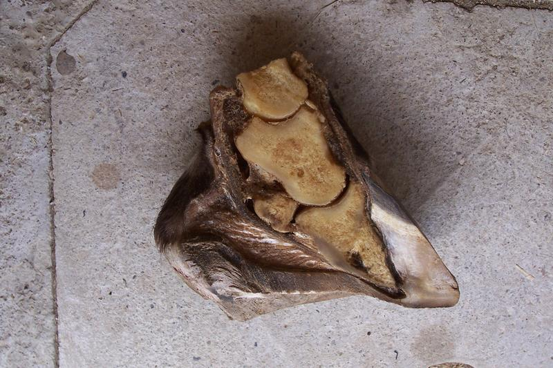 Hoof specimen, sagittal section. Laminitis: severe hoof capsule rotation with wide keratin wedge and pedal bone penetration into the hoof sole. Anatomic specimen from courtesy of Sonja Appelt and Mathias Gerss [1]